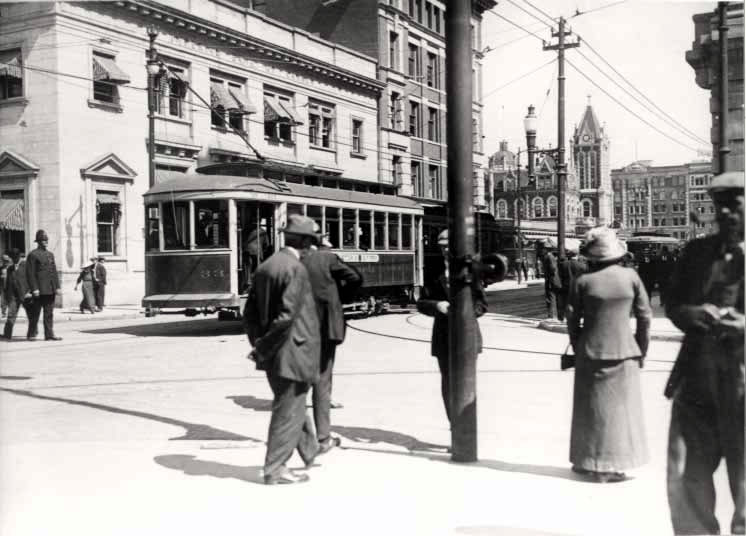 Streetcar and pedestrians, 11th Avenue, 1911 - Regina, Saskatchewan